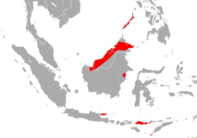 Creagh's Horseshoe Bat (Rhinolophus creaghi) range